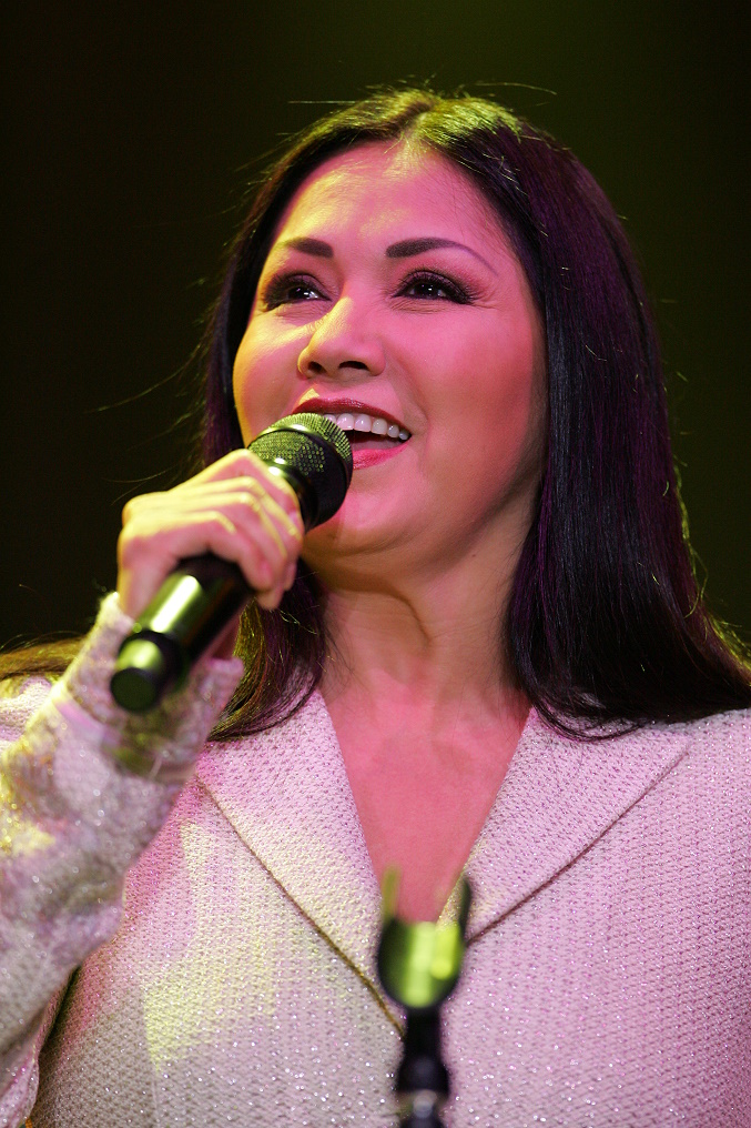 Ana Gabriel in concert October 19th, 2006 at the Chumash Casino Resort in Santa Ynez, California.